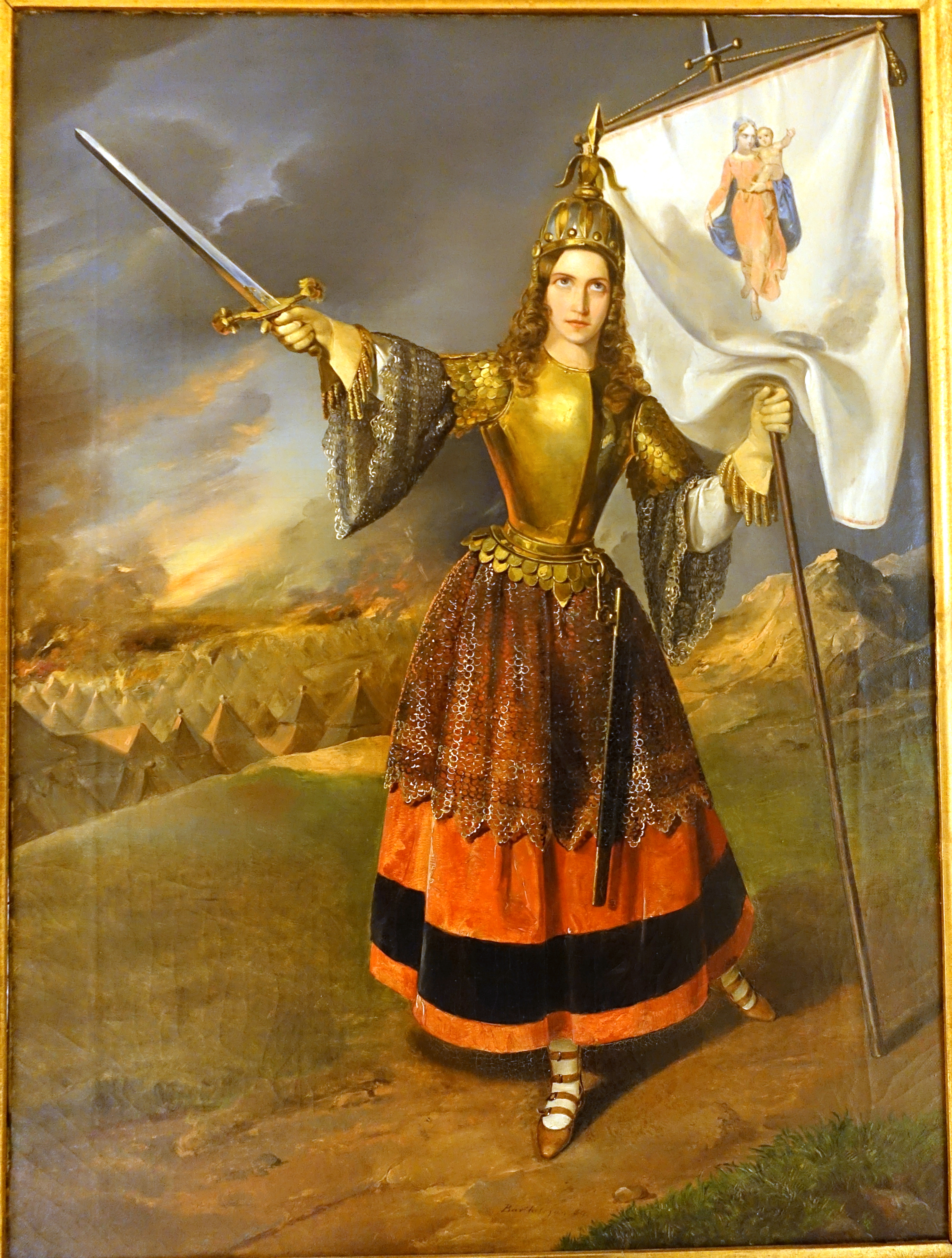 Exhibit in the Braunschweigisches Landesmuseum, Braunschweig, Germany. This work is in the public domain because the artist died more than 100 years ago.